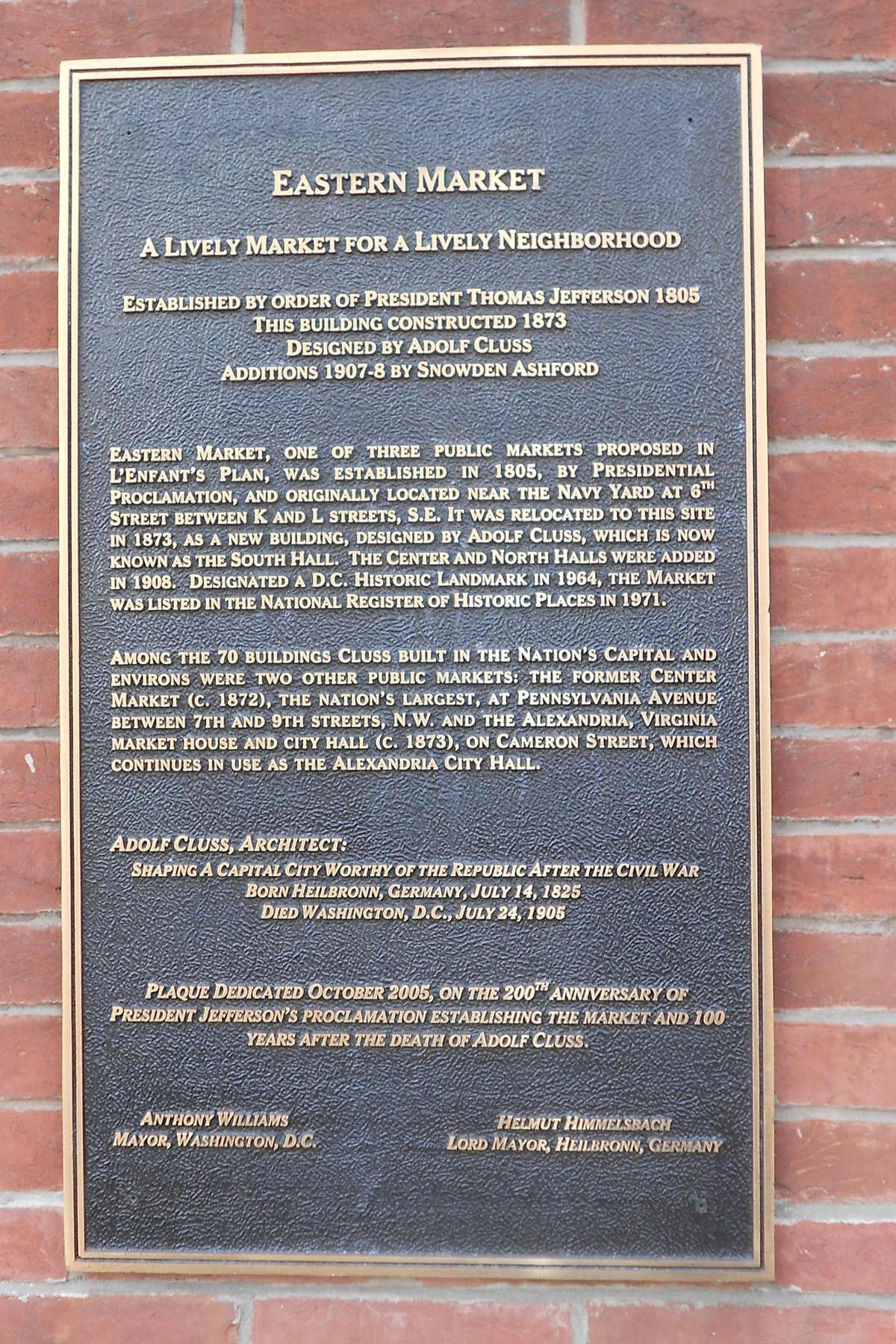 Plaque on the wall of Eastern Market, Washington, D.C., U.S.A.